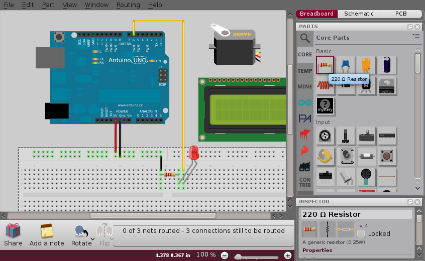 Screenshot of the Fritzing software in action.